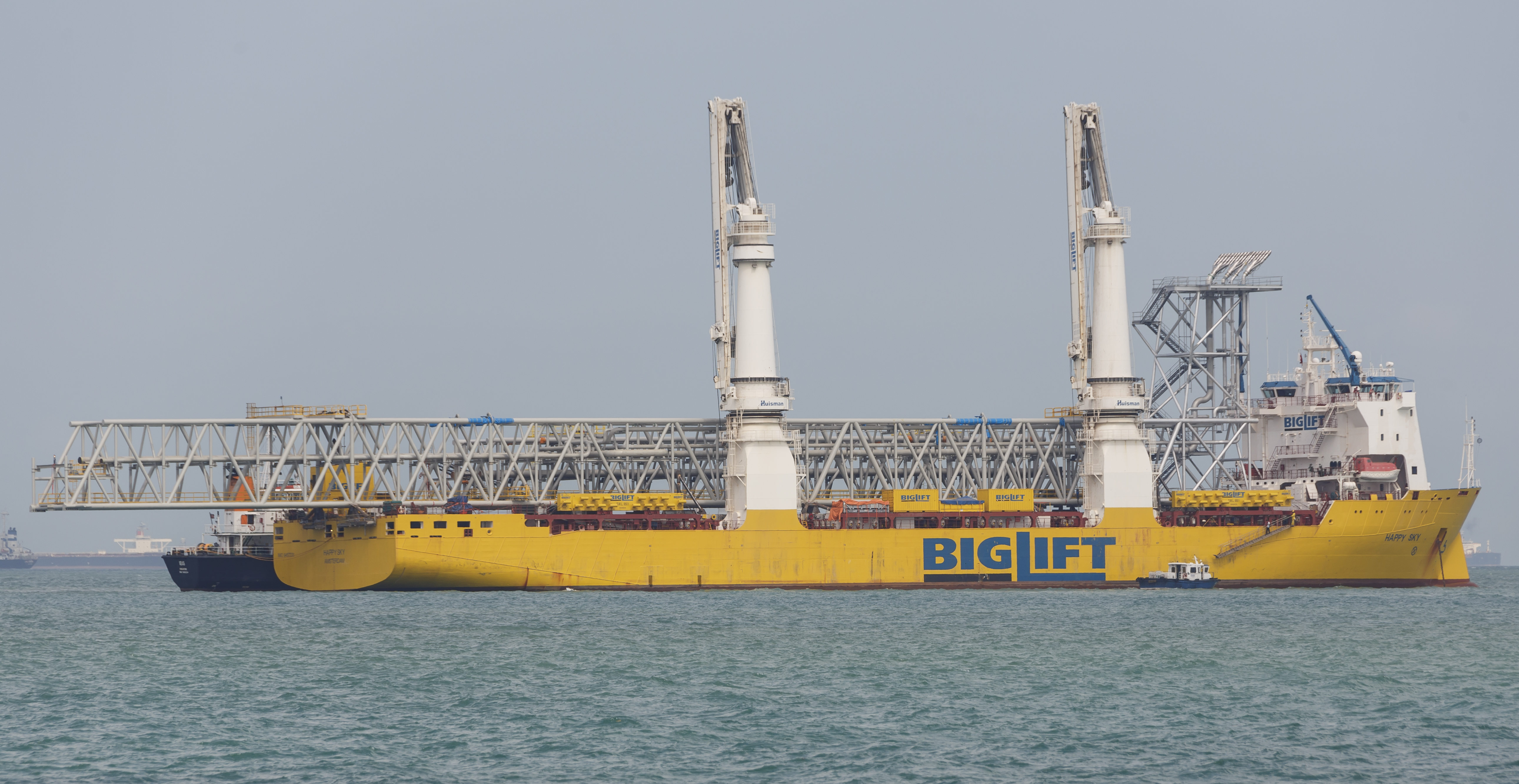 Singapore: Ship "Happy Sky" (Heavy Load Carrier) off Marina South Pier